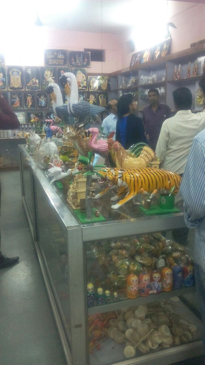 Nirmal Handicrafts Shop containing wooden toys and paintings